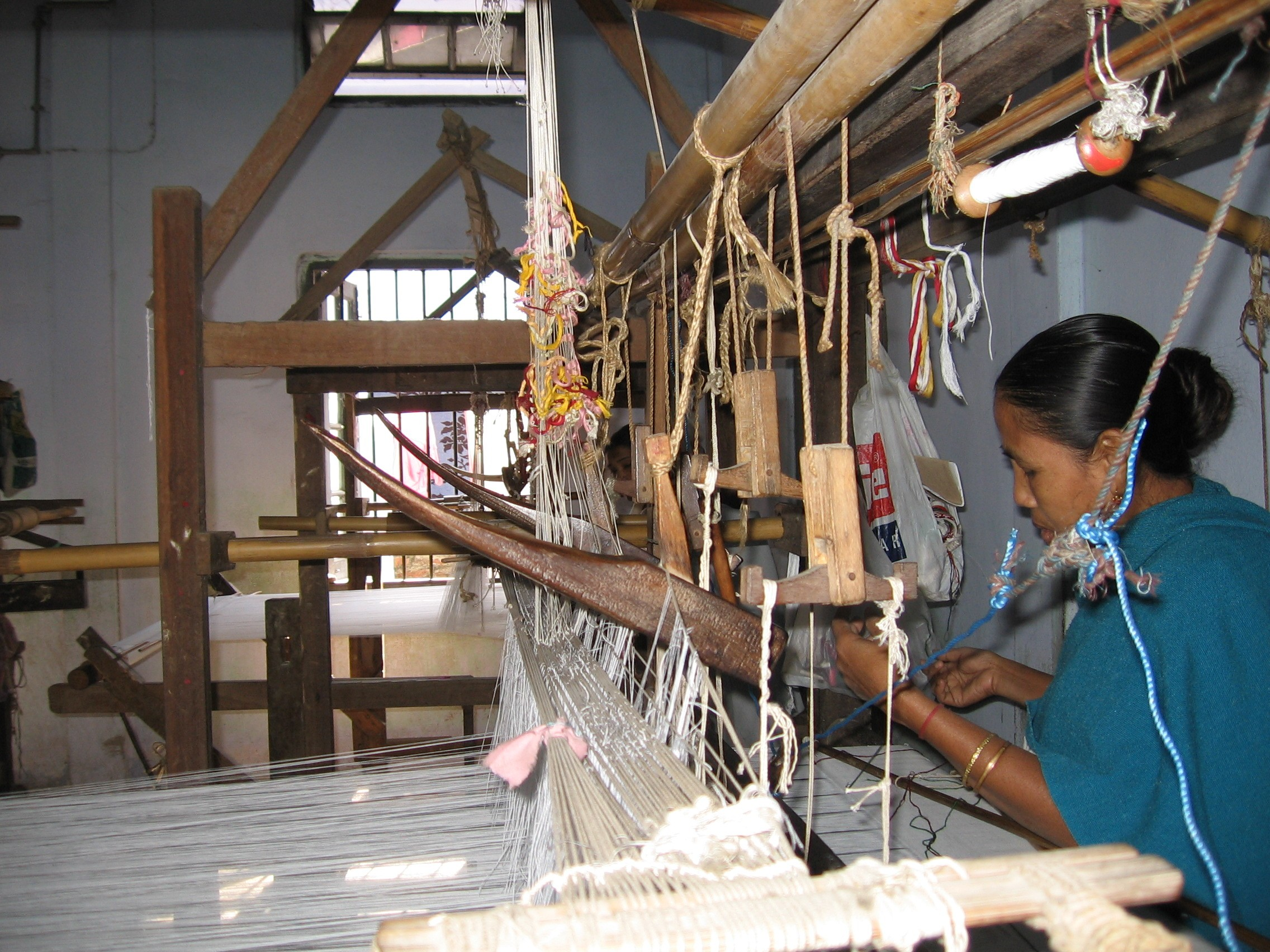 An Assamese woman using a traditional Handloom for weaving Mekhela Chadors in the Mahila Samiti workshop in Tezpur.